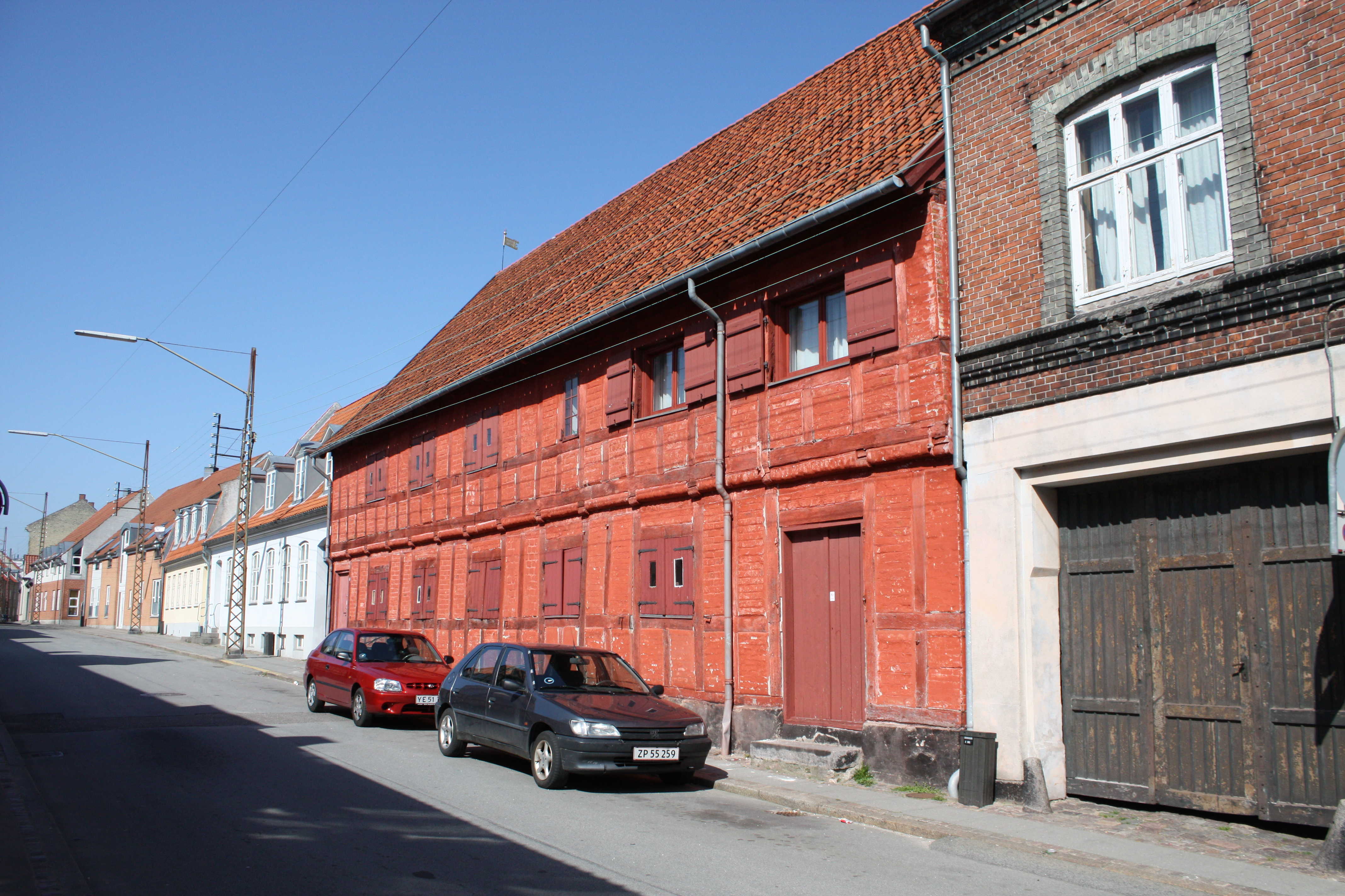 The listed building at 43 Frisegade in Nykøbing Falster, Falster, Denmark. The building is owned by the local museum, Falsters Minder, which is a part of Museum Lolland-Falster. It is used as a storage facility.